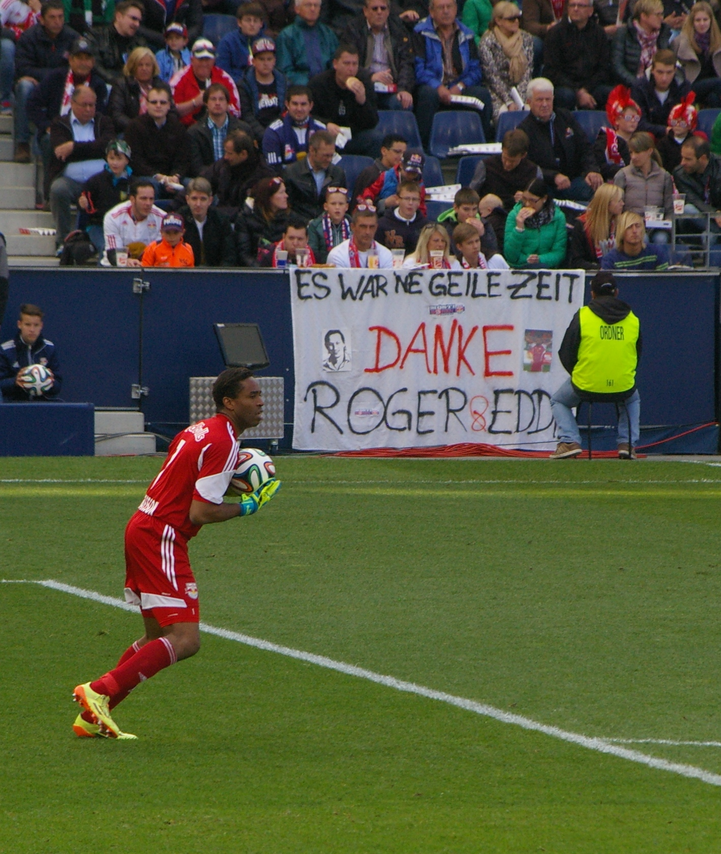 league match Austrian Bundesliga last home match season 2013/14